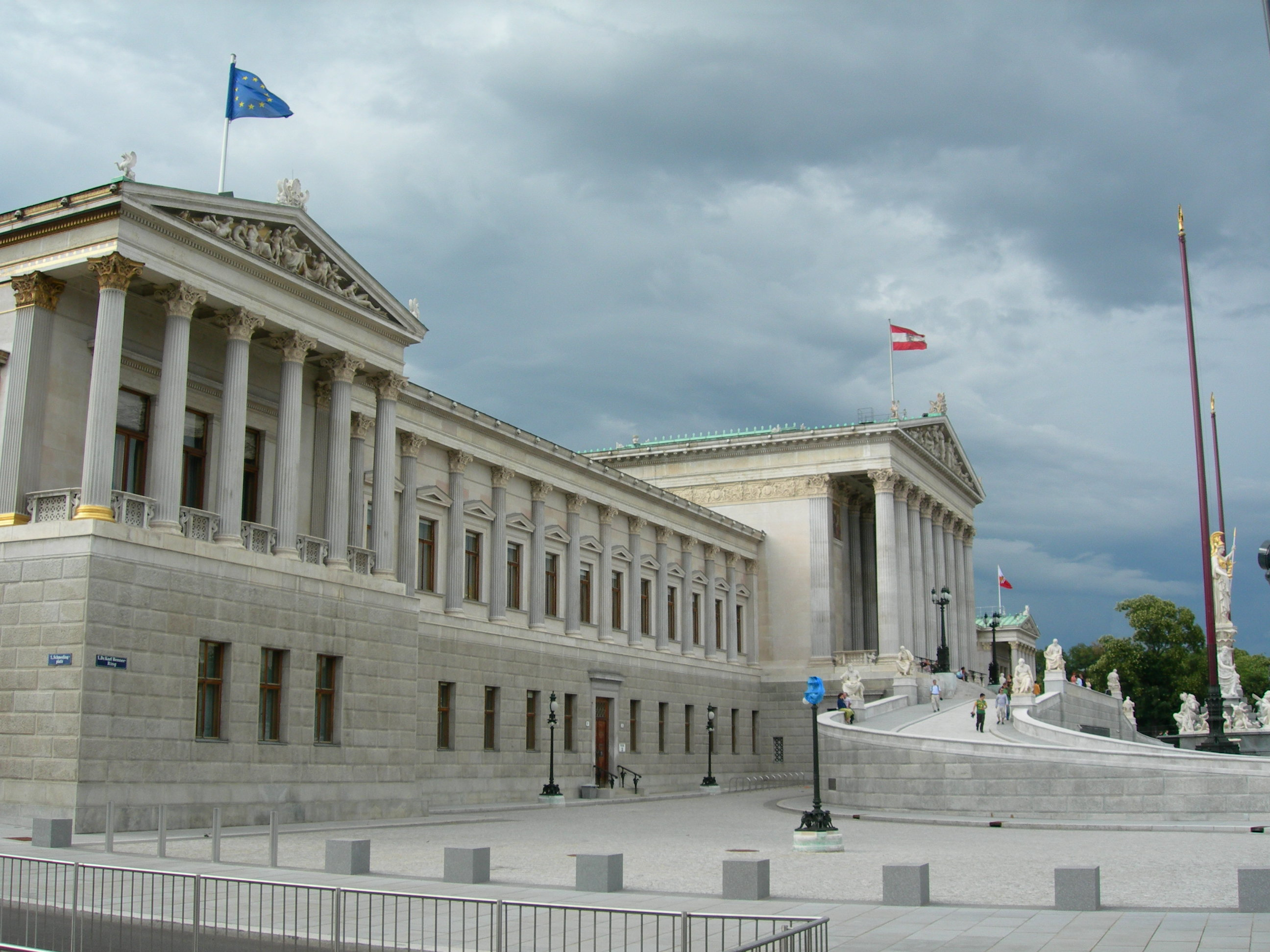 Austria, Vienna, Austrian Parliament Building